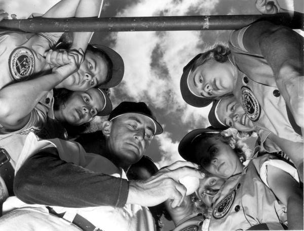 Local call number: c009839 Title: [Dick Bass with members of the Fort Wayne Daisies baseball team : Opa locka, Florida ] [graphic] Date: Photographed on April 22, 1948. Physical descrip: 1 photoprint : b&w ; 4 x 5 in. Series Title: (Department of Commerce collection.) General Note: Accompanying note "Dick Bass gives members of Fort Wayne club pointers on new 10-3/8" ball which will be used this year." Repository: 500 S. Bronough St., Tallahassee, FL 32399-0250 USA. Contact: 850-245-6700. Persistent URL